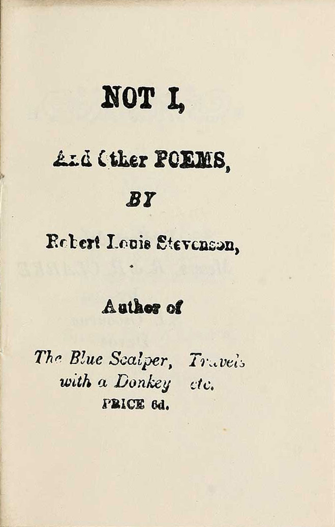 Works of Robert Louis Stevenson, Edinburgh, Longmans Green and Co, vol. 28, 1898, p. 85.